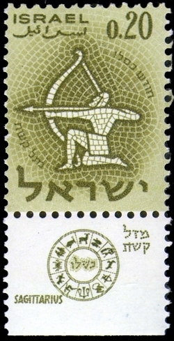 Zodiac I stamp - 0.20 Israeli lira - Sign of Sagittarius, Month of Kislev